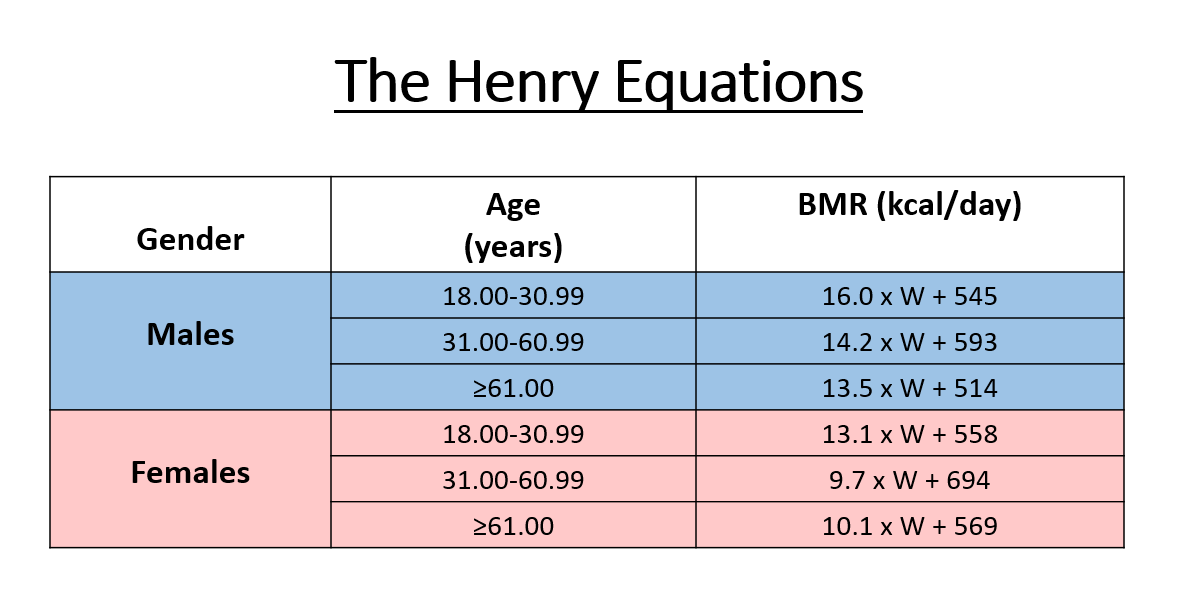 A table for the henry equation.